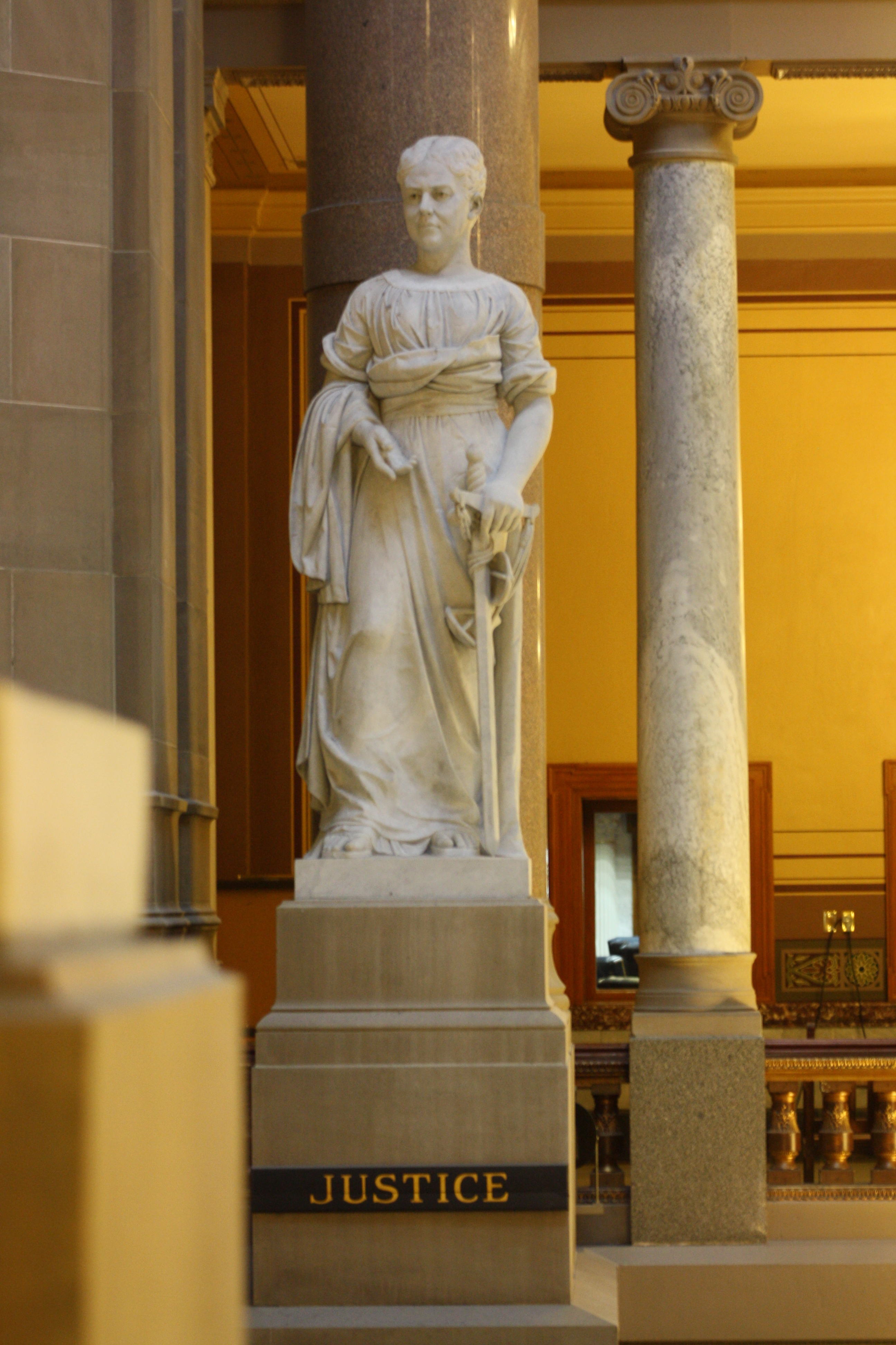 Justice Sculpture in the Indiana Statehouse, front, by Alexander Doyle, 1888. Photo taken November 20, 2010.